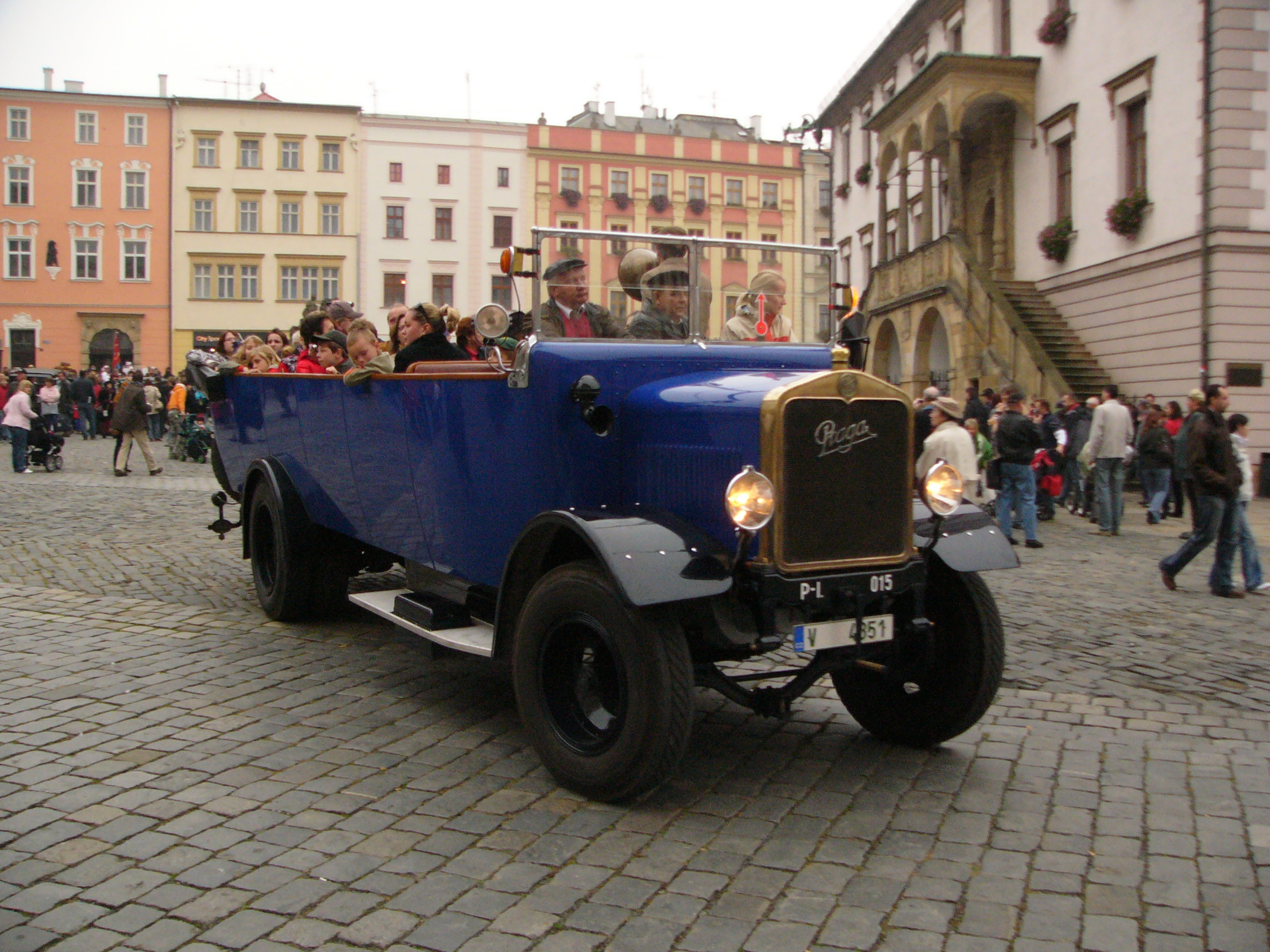 Praga NO bus for tourists of Čedok company was driving in Prague since 1927. Photo taken in Olomouc (Czech Republic).